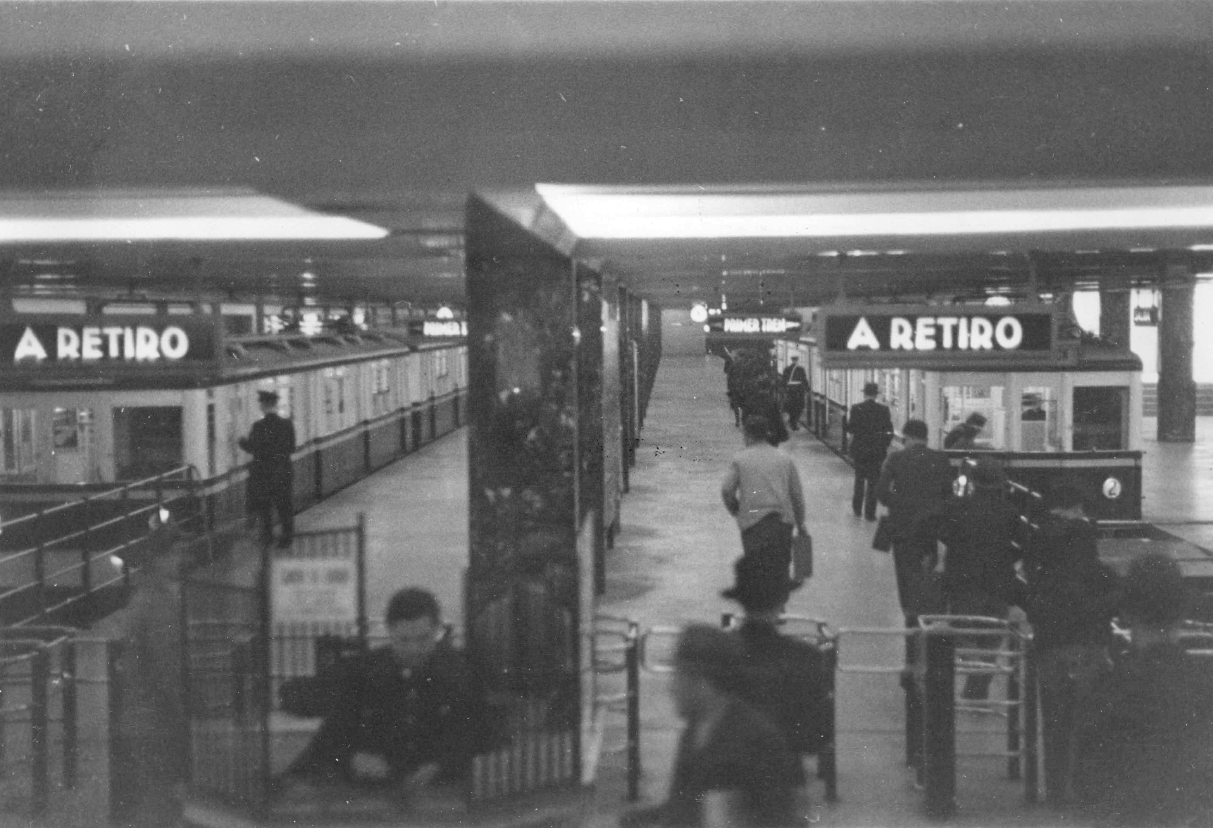 Constitución station on Line C of the Buenos Aires Underground just after its inauguration.